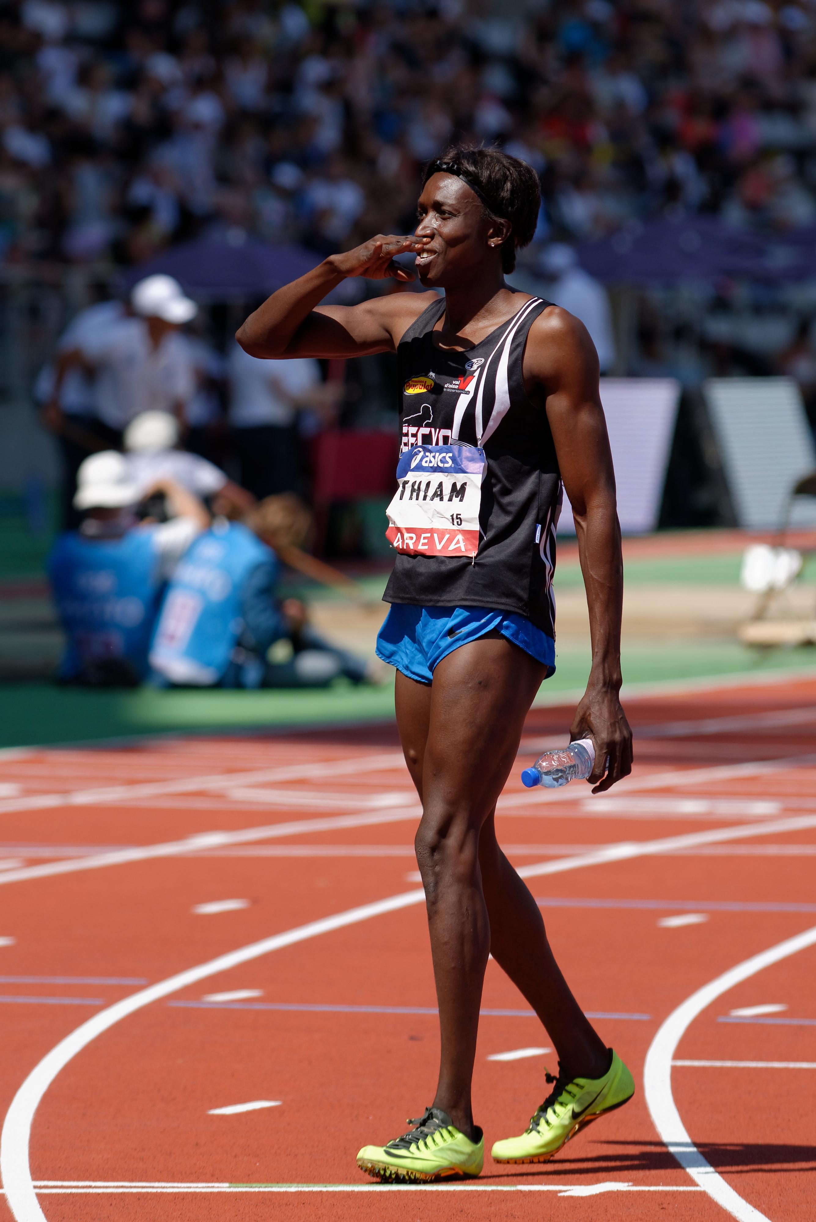 Amy Mbacké Thiam thanks fans after the women's 400-metre race during the French Athletics Championships 2013 at Stade Charléty in Paris, 14 July 2013.